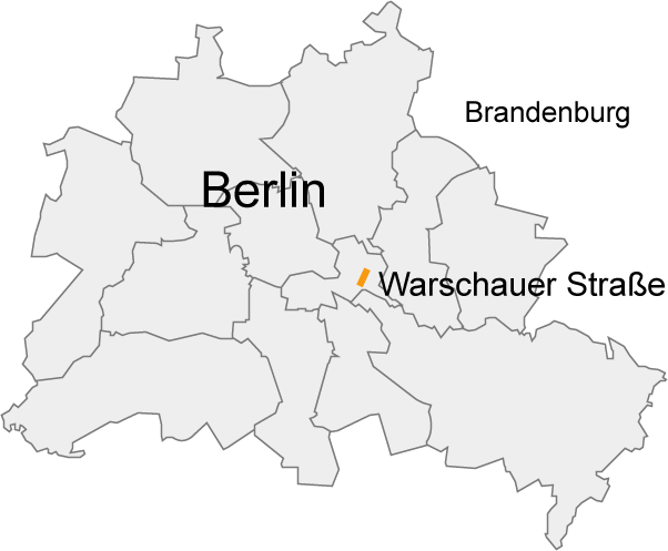 Position of the Warschauer Straße in Berlin